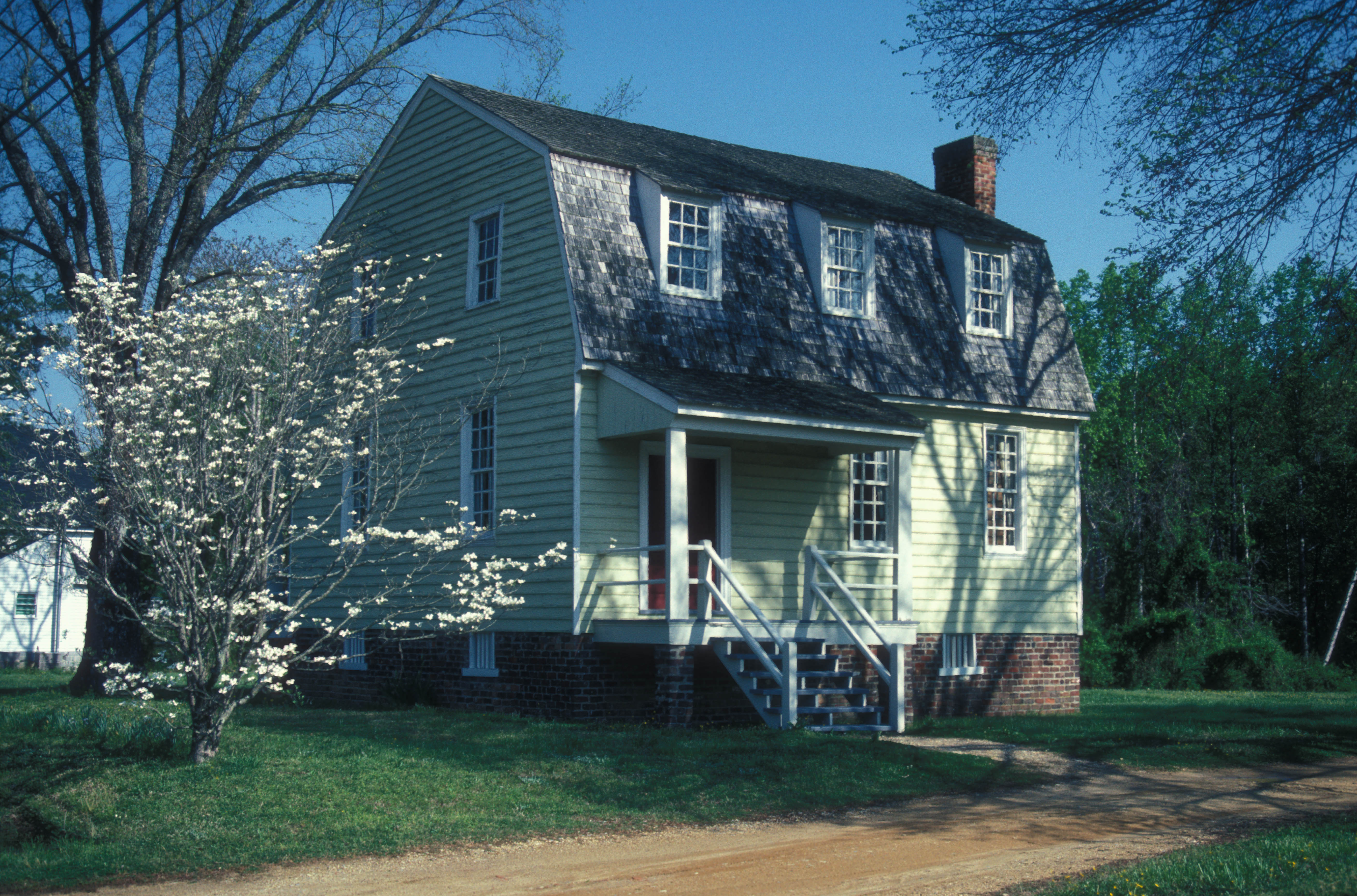 OWENS HOUSE – OLDEST HOUSE IN HALIFAX; C1760; IT IS FURNISHED AS THE HOME OF A WEALTHY MERCHANT